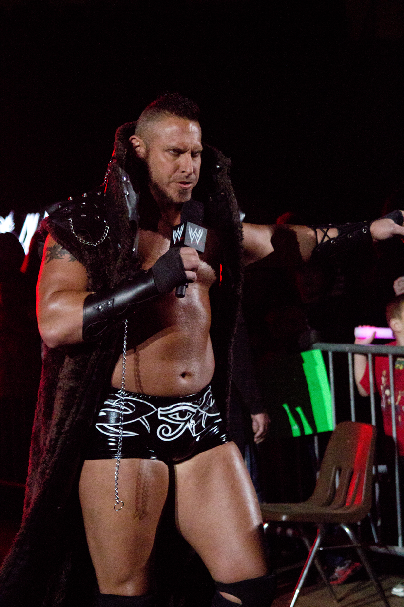 Conor O'Brian addresses the audience during a WWE house show on February 2, 2013 in Montgomery, Alabama.